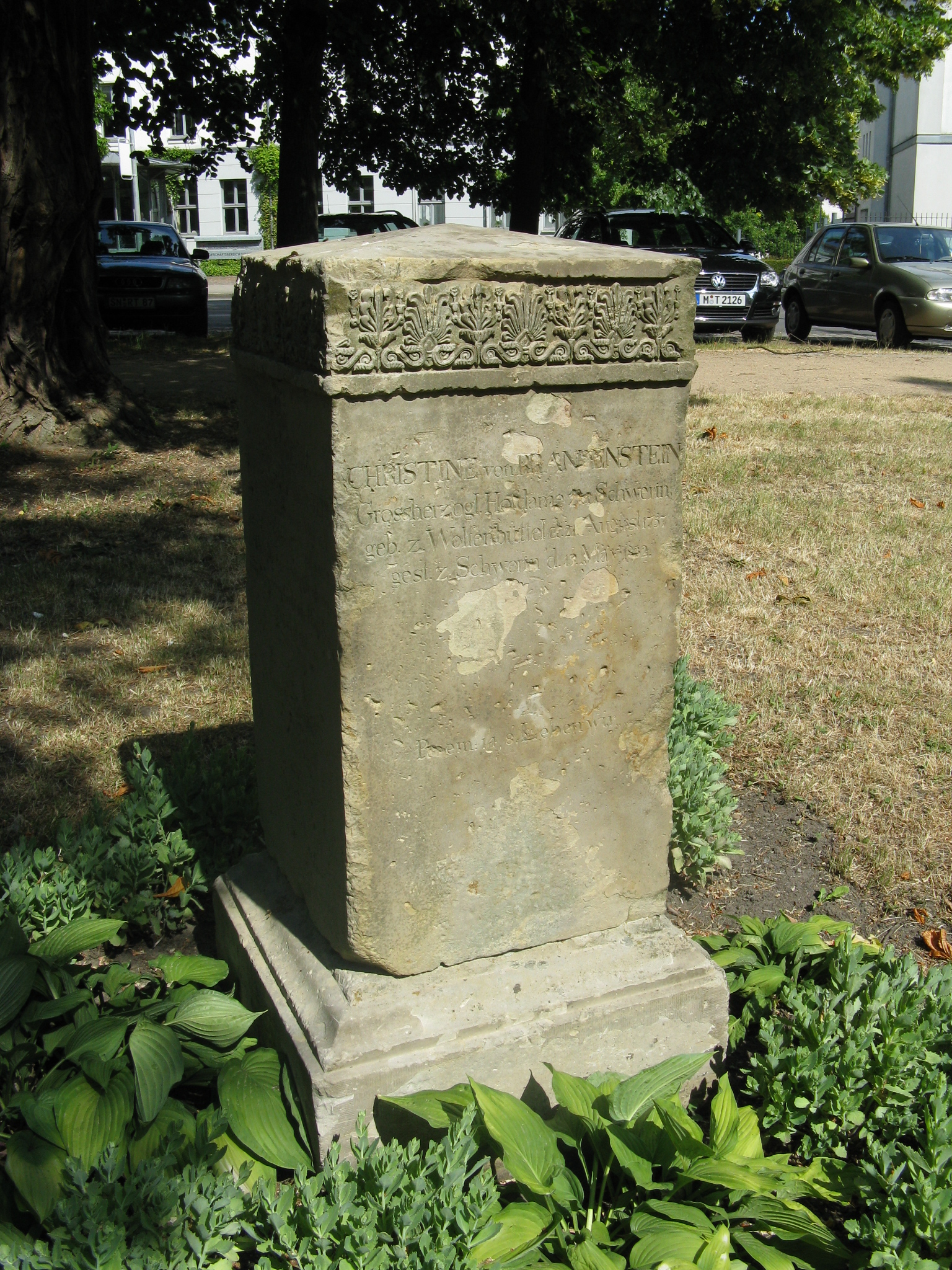 Gravestone of Christine von Brandenstein on the Schelffriedhof in Schwerin, Mecklenburg-Vorpommern, Germany